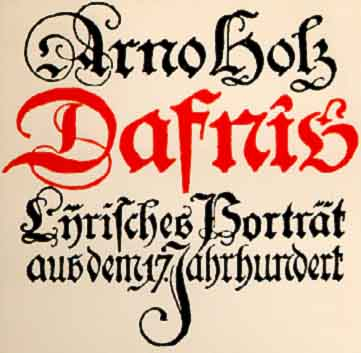 Book cover of Arno Holz, "Dafnis. Lyrisches Portrait aus dem 17. Jahrhundert" 1904